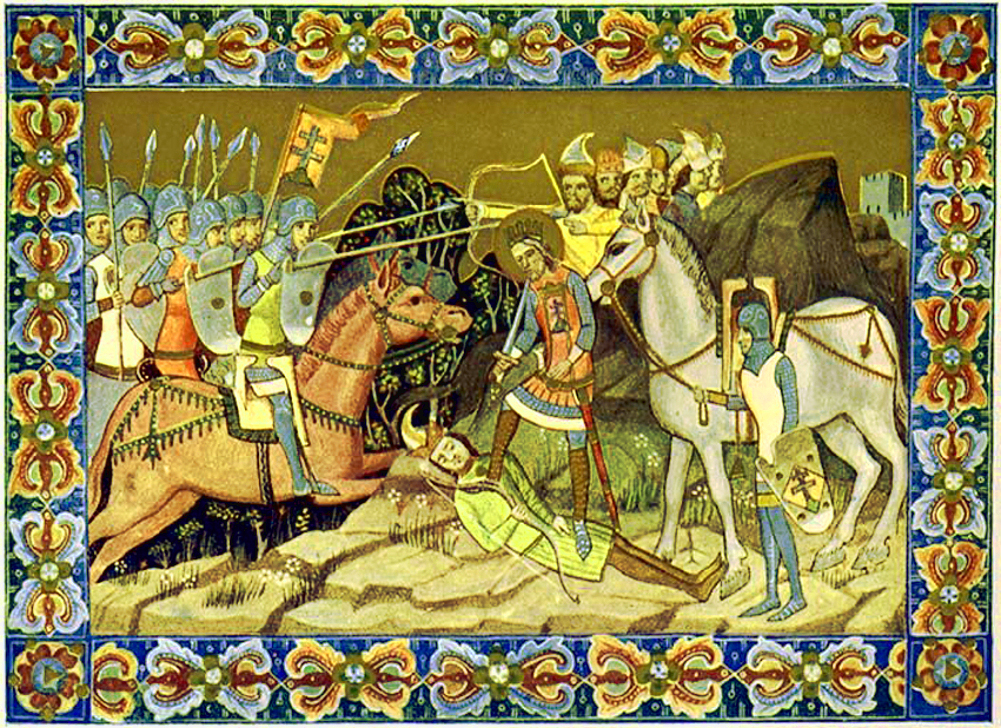 Chronicon Pictum